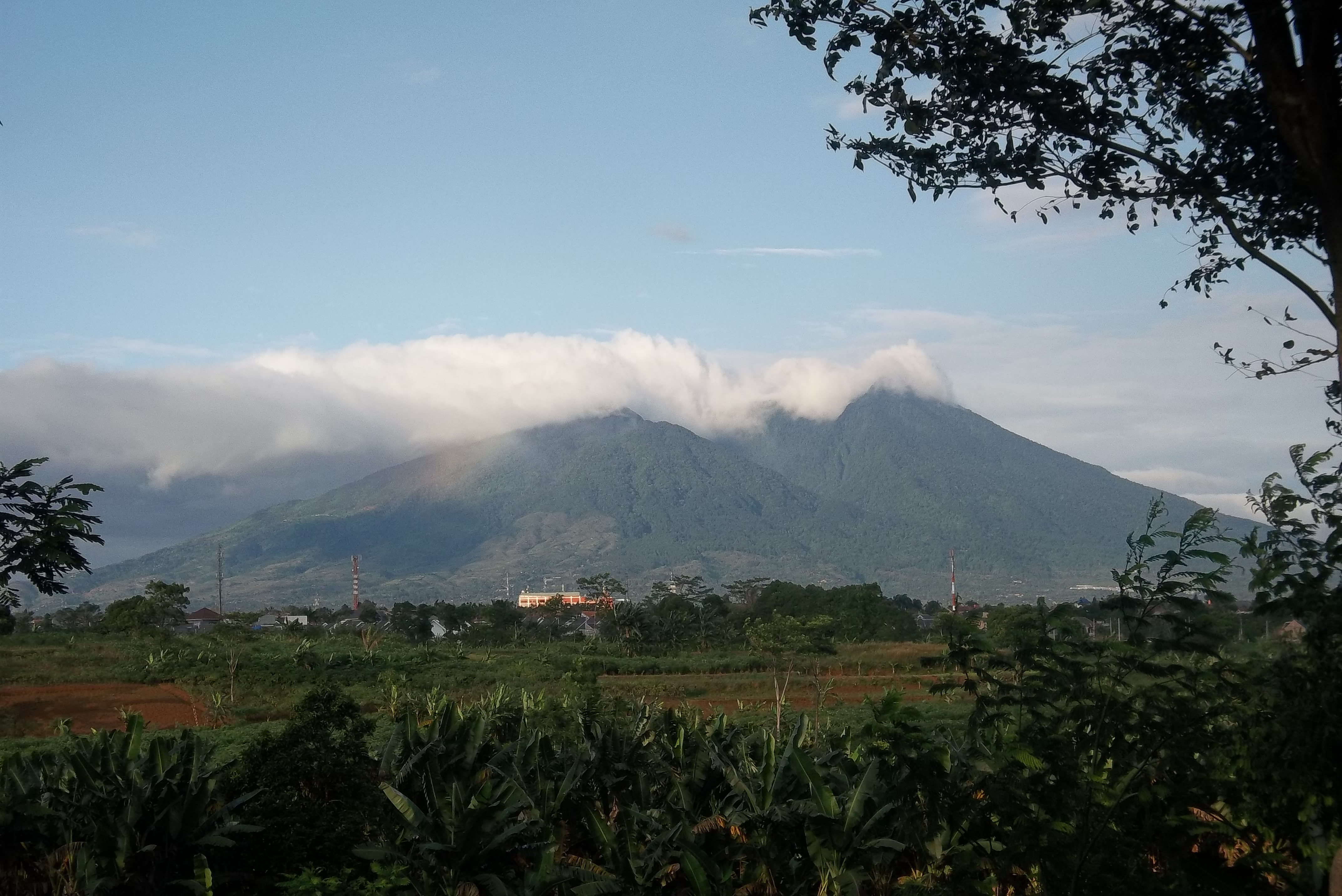 Rainbow at the Slope of Mount Salak